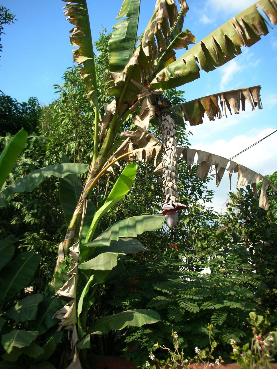 A wild type of banana known in Thai language as Kluai Tani (กล้วยตานี). The bananas are not eaten because they are full of hard seeds